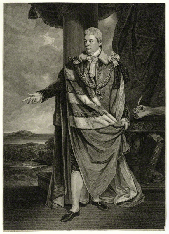 John Murray, 4th Duke of Atholl (1755-1830). Piece is an engraving of an earlier portrait.